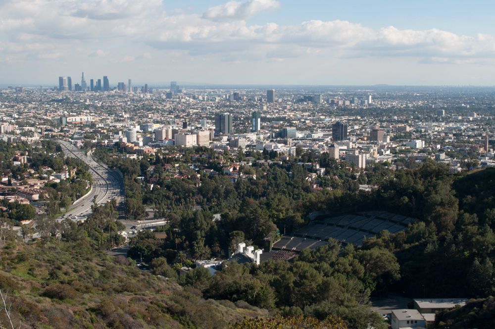 Hollywood Bowl and downtown Los Angeles, seen from Mulholland Drive An extremely crisp, smog-free day in Los Angeles after two consecutive nights of heavy rain. Great view of Hollywood Bowl in the foreground, with Hollywood's new developments right beyond, and Koreatown and downtown further in the distance. The freeway on the left is US-101 (Hollywood Freeway), which is usually hopelessly jammed at all times of the day, seven days a week, but is enjoying a relative lull on a Sunday afternoon.